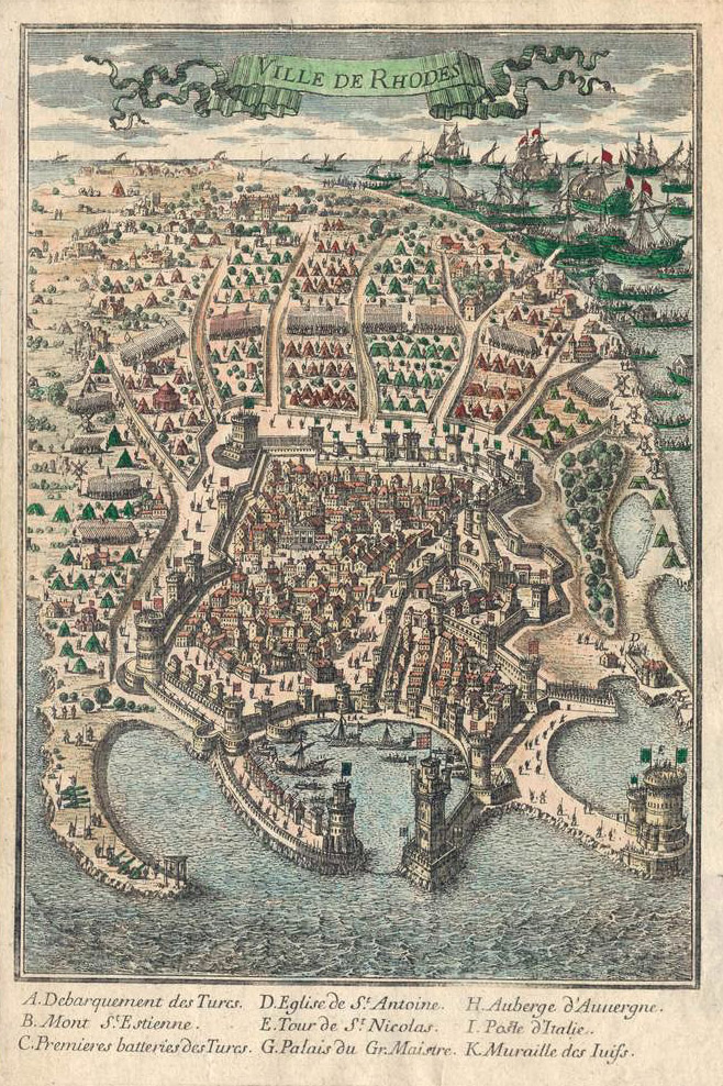 Ville de RHODES handcoloured copper engraved map of Rhodes from the book "[BOUHOURS, Dominique, S.J.] - Histoire de Pierre d'Aubusson grand-maistre de Rhodes." third edition, Hague 1739. Format: 15 x 20,5 cm.